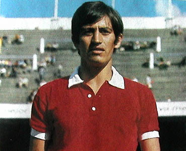 This is a photograph of Héctor_Yazalde taken during his time with Independiente in Argentina. He played his last game for the club in 1971